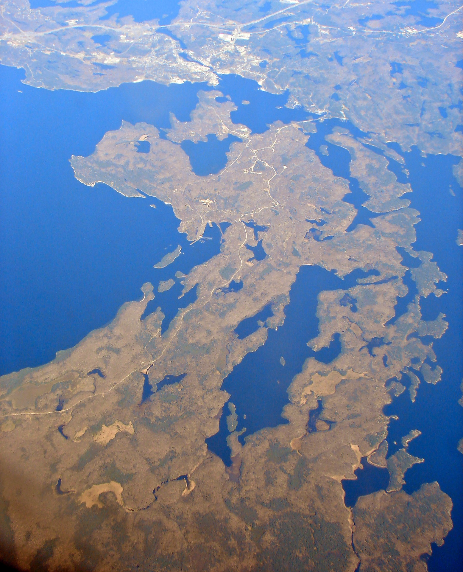 Aerial view of Parry Island in Georgian Bay, Ontario, Canada. The entire island forms the reserve of the Wasauksing First Nation.